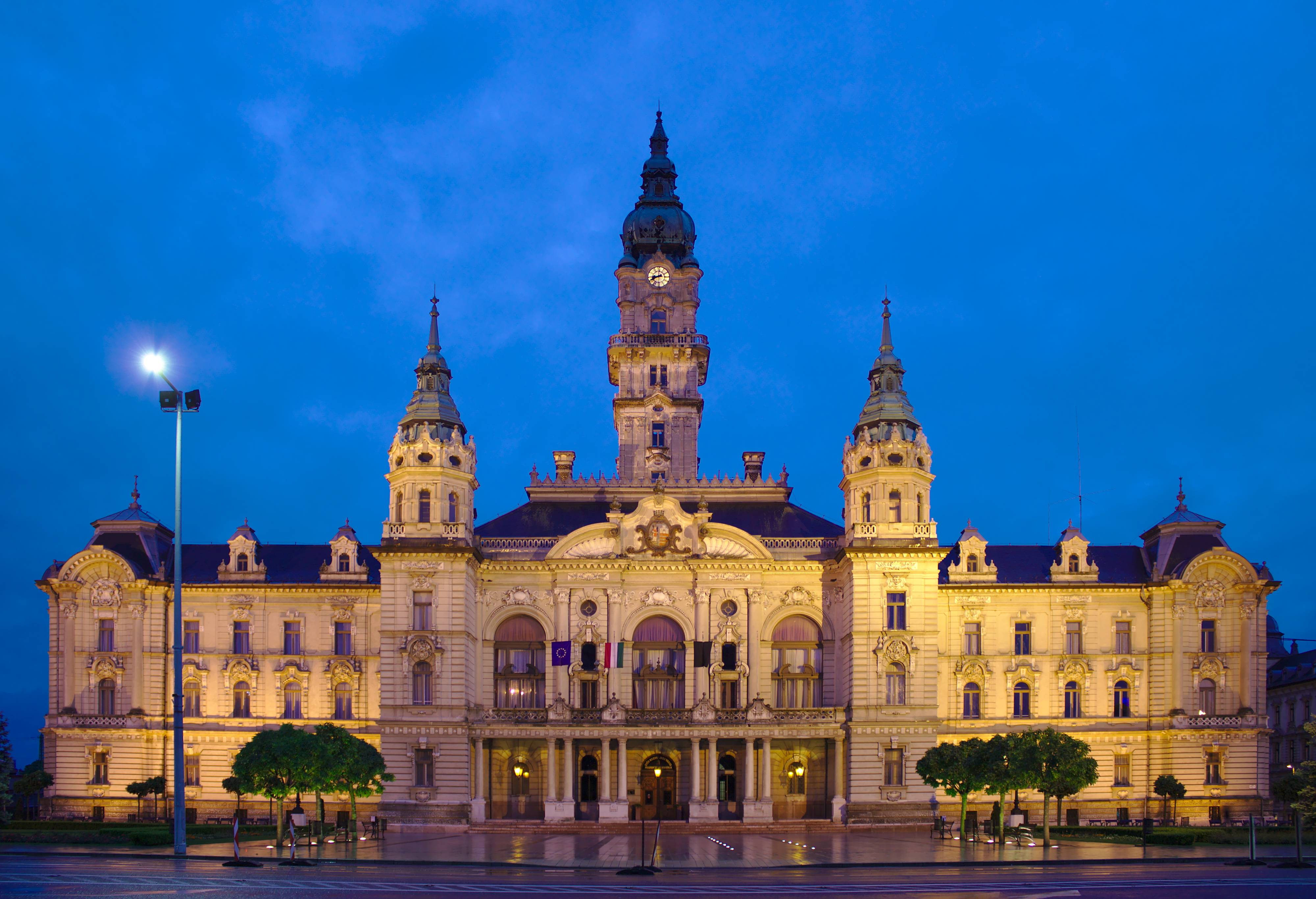 Győr Town Hall This is a photo of a monument in Hungary, Identifier: 4402